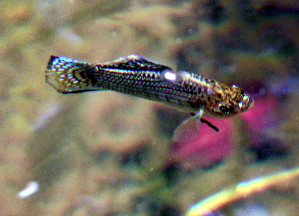 Different types of fishes A Gambusia or eastern mosquito fish. Gambusia holbrooki. Eats Mosquito Larvae.